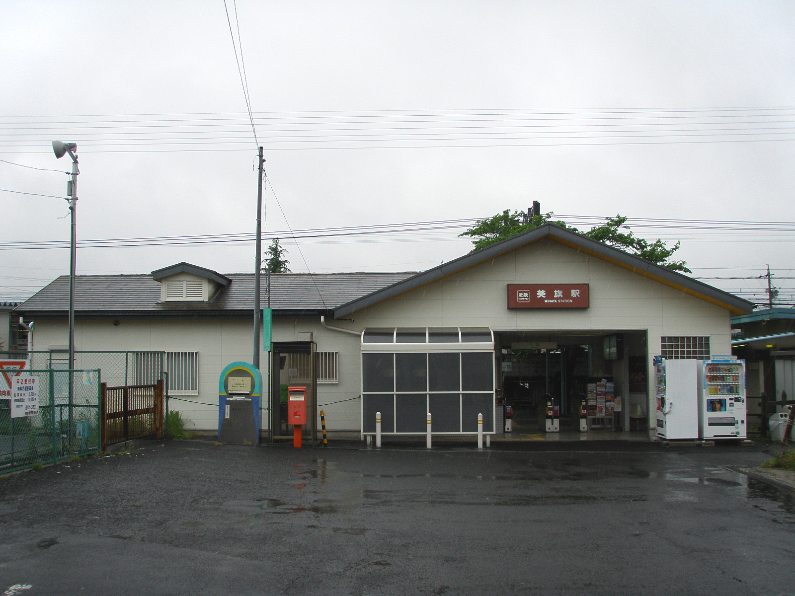 Kinki Nippon Railway Osaka Line Mihata Station Building